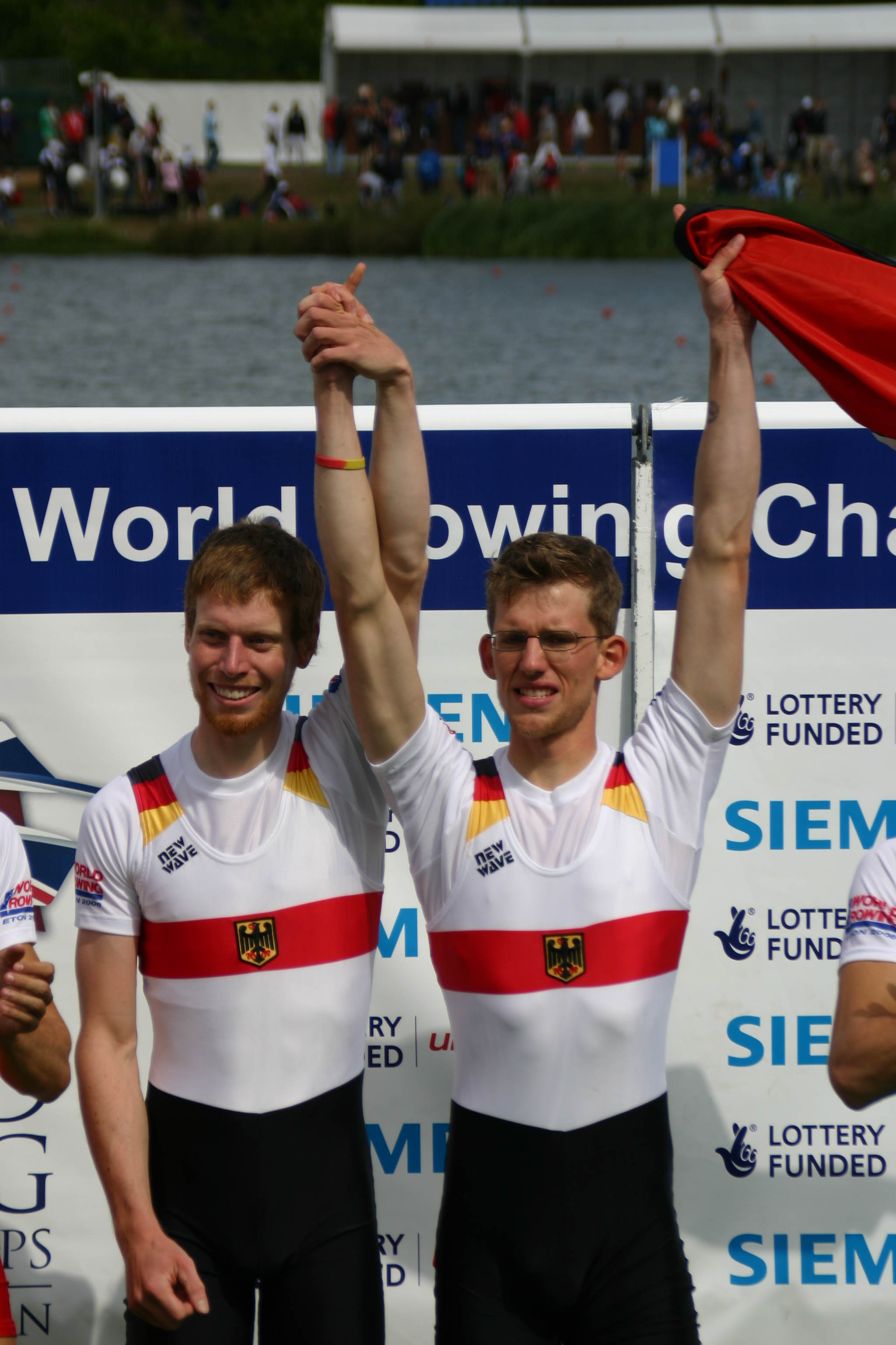 World Champions 2006. lightweight men coxless pair: Felix Otto (right), Ole Rückbrodt (left)